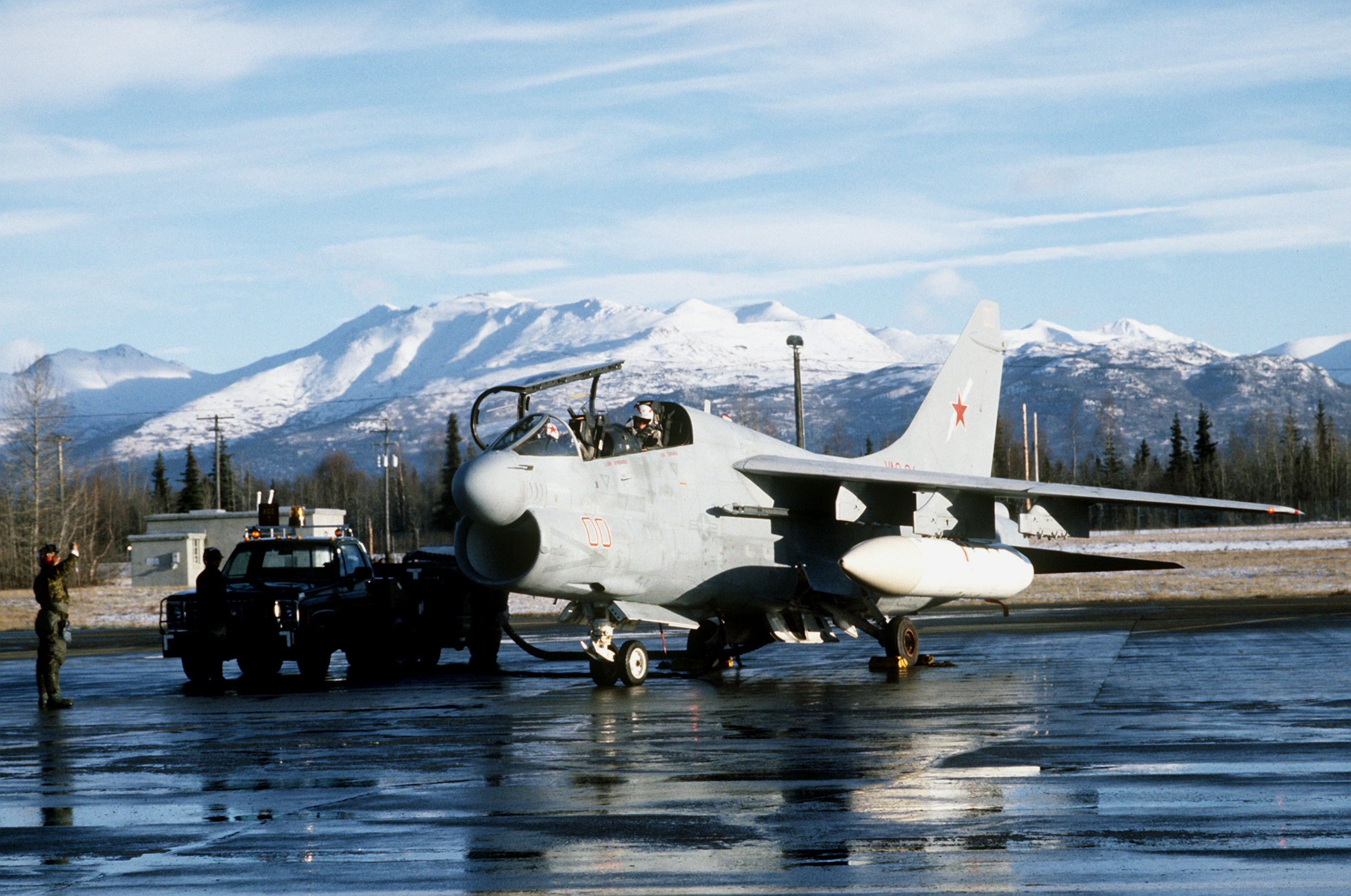 A U.S. Navy Vought EA-7L Corsair II aircraft of electronic warfare squadron VAQ-34 on the ramp during the U.S. 3rd Fleet North Pacific Exercise (NORPACEX) at Elmendorf Air Force Base, Alaska (USA) on 8 Nov 1987. VAQ-34 operated as a adversary squadron, hence the Soviet star and the red numbers on the plane.